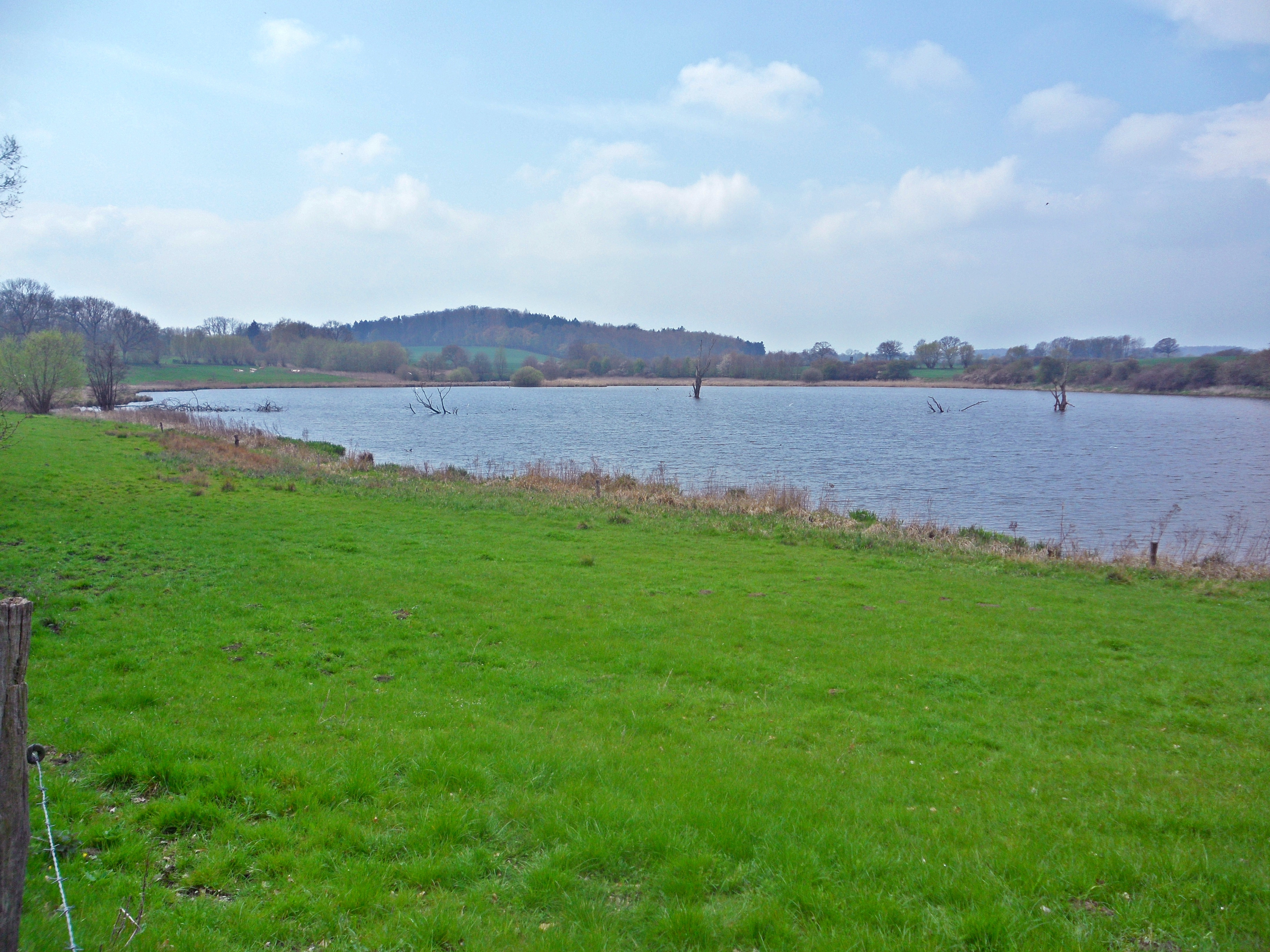 The Klenzauer See. Due to flooding the lake again in 1996, the old trees are still visible in the water